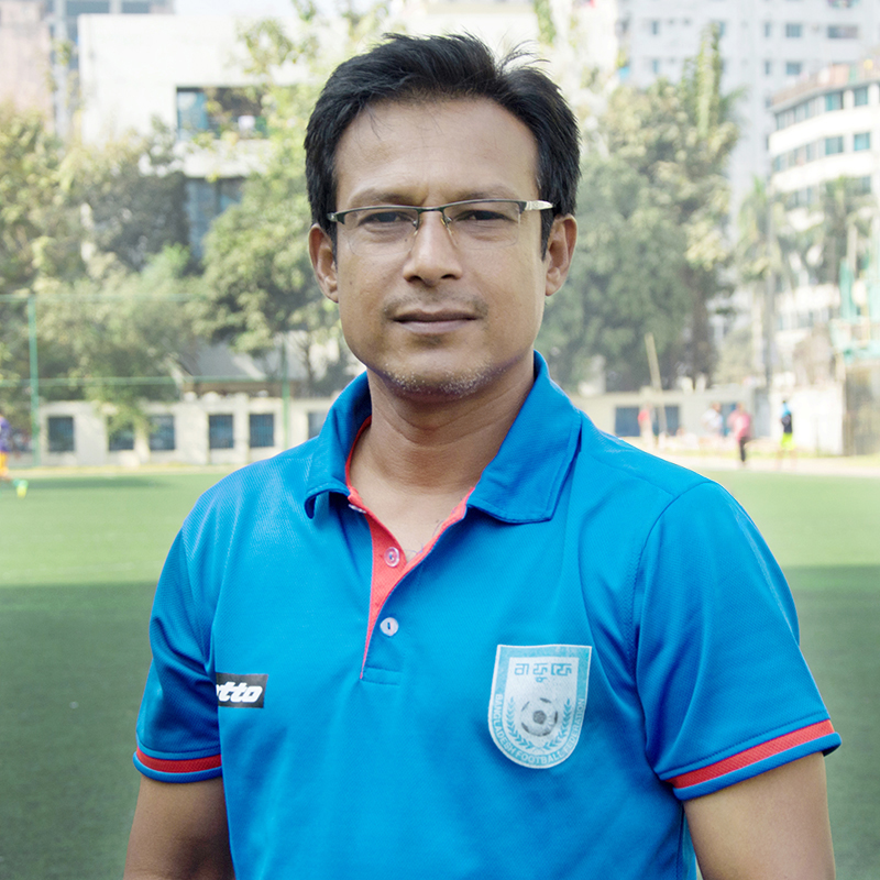 Chittagong Abahani's Coach Zulfiker Mahmud Mintu poses for a portrait at BFF Artificial Turf, Motijheel, Dhaka on 28 December, 2016